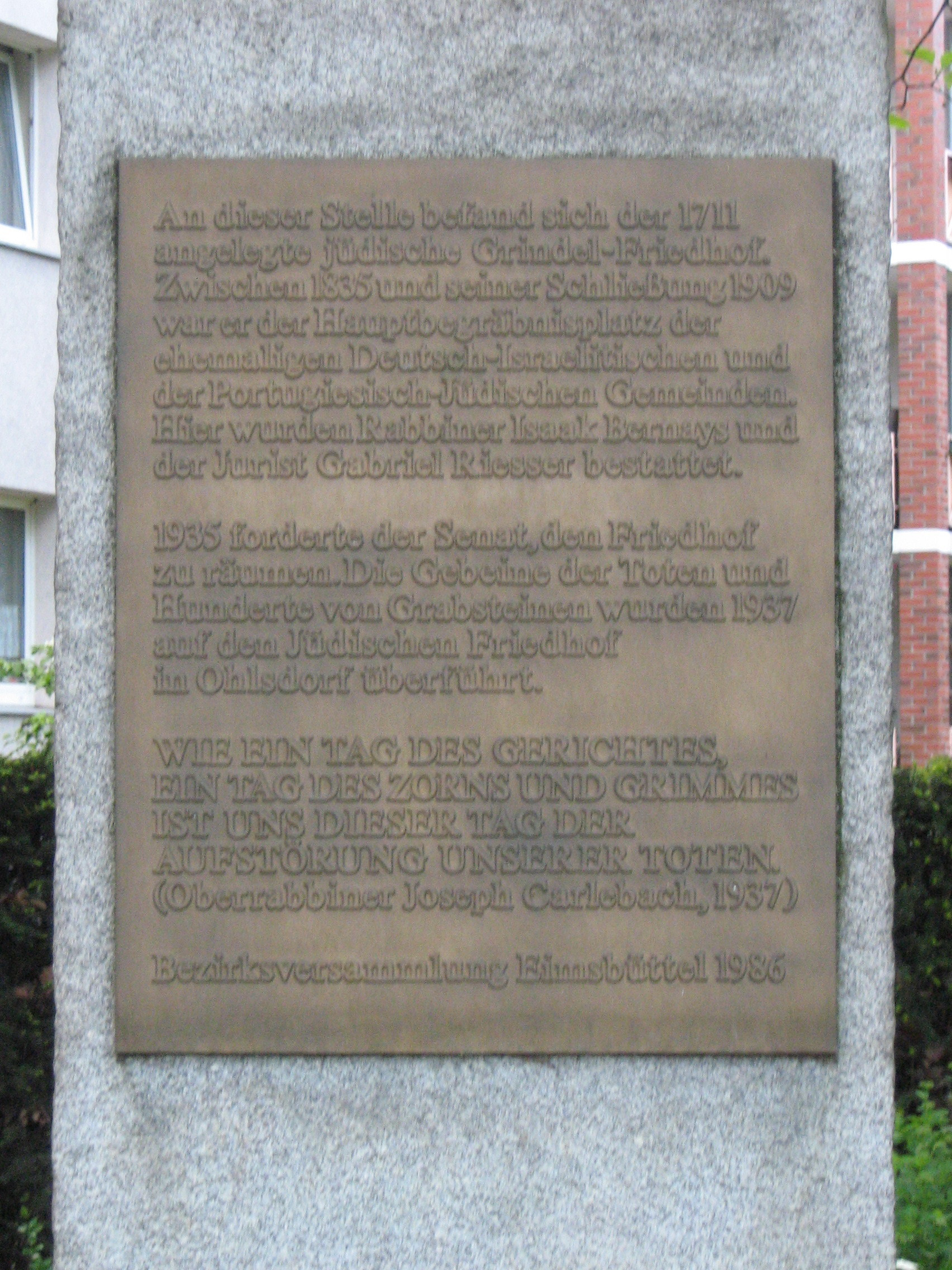 Plaque for the former jewish cemetery in Hamburg-Grindel